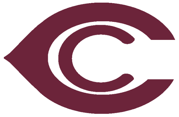 A Chicago Cardinals logo used in the 1920s and 1930s.